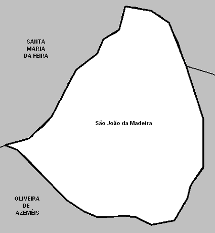 Location of São João da Madeira municipality. Map created by Brian Boru in December 2005.